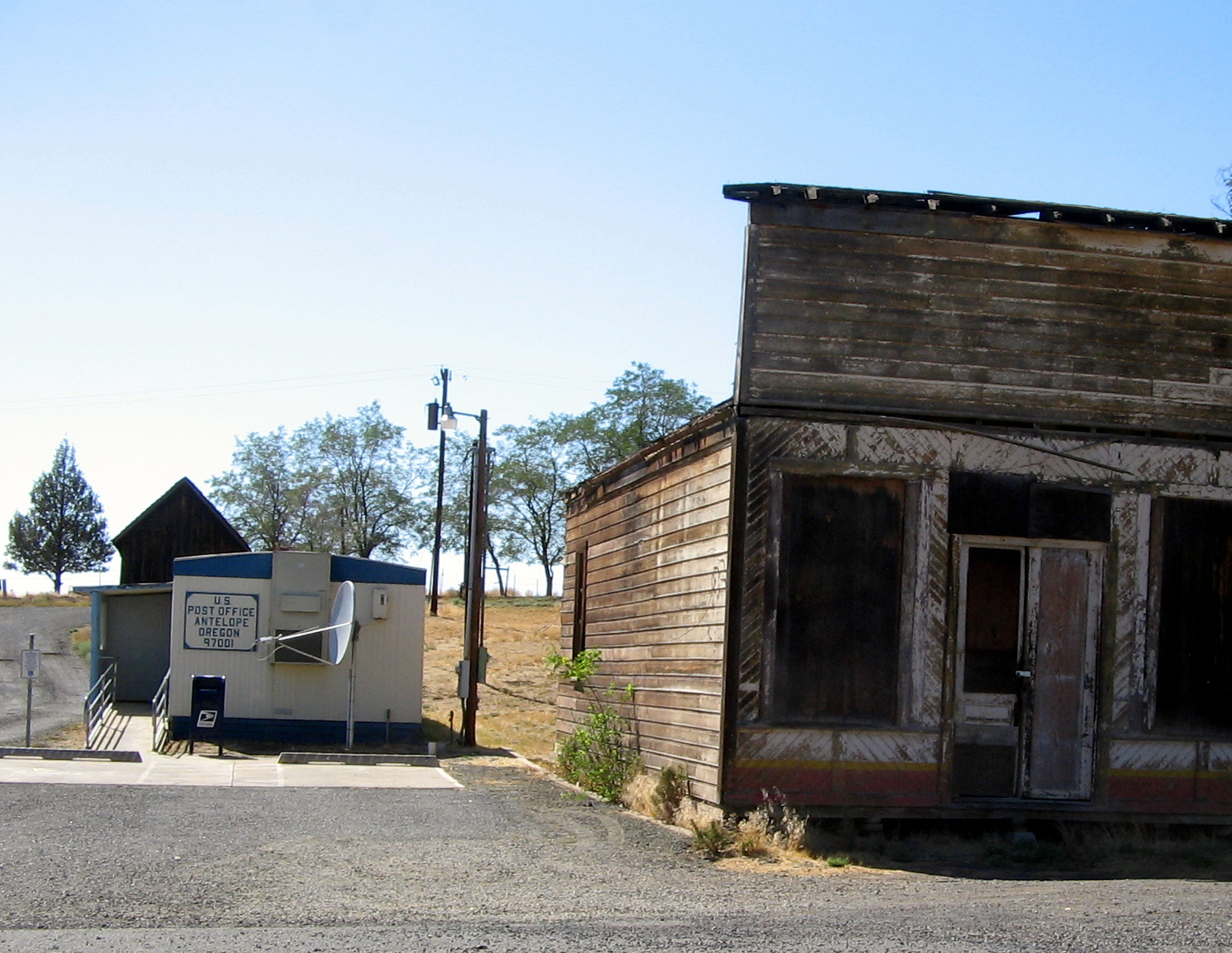 Antelope, Oregon post office. Photo should be credited (as Creative Commons requires) to "Ken Morton".